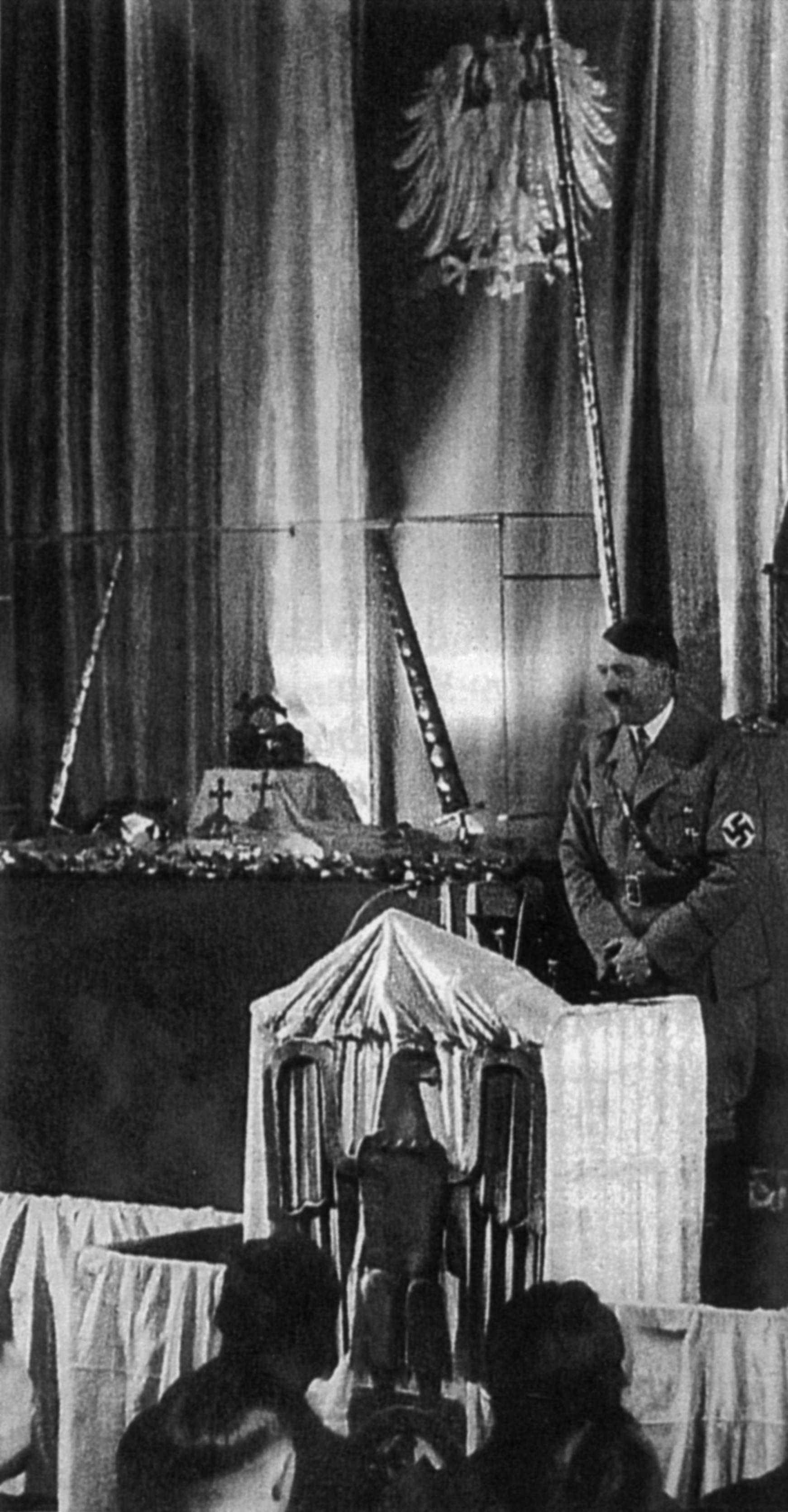 Hitler and the insignia of the Holy Roman Empire, 1938.